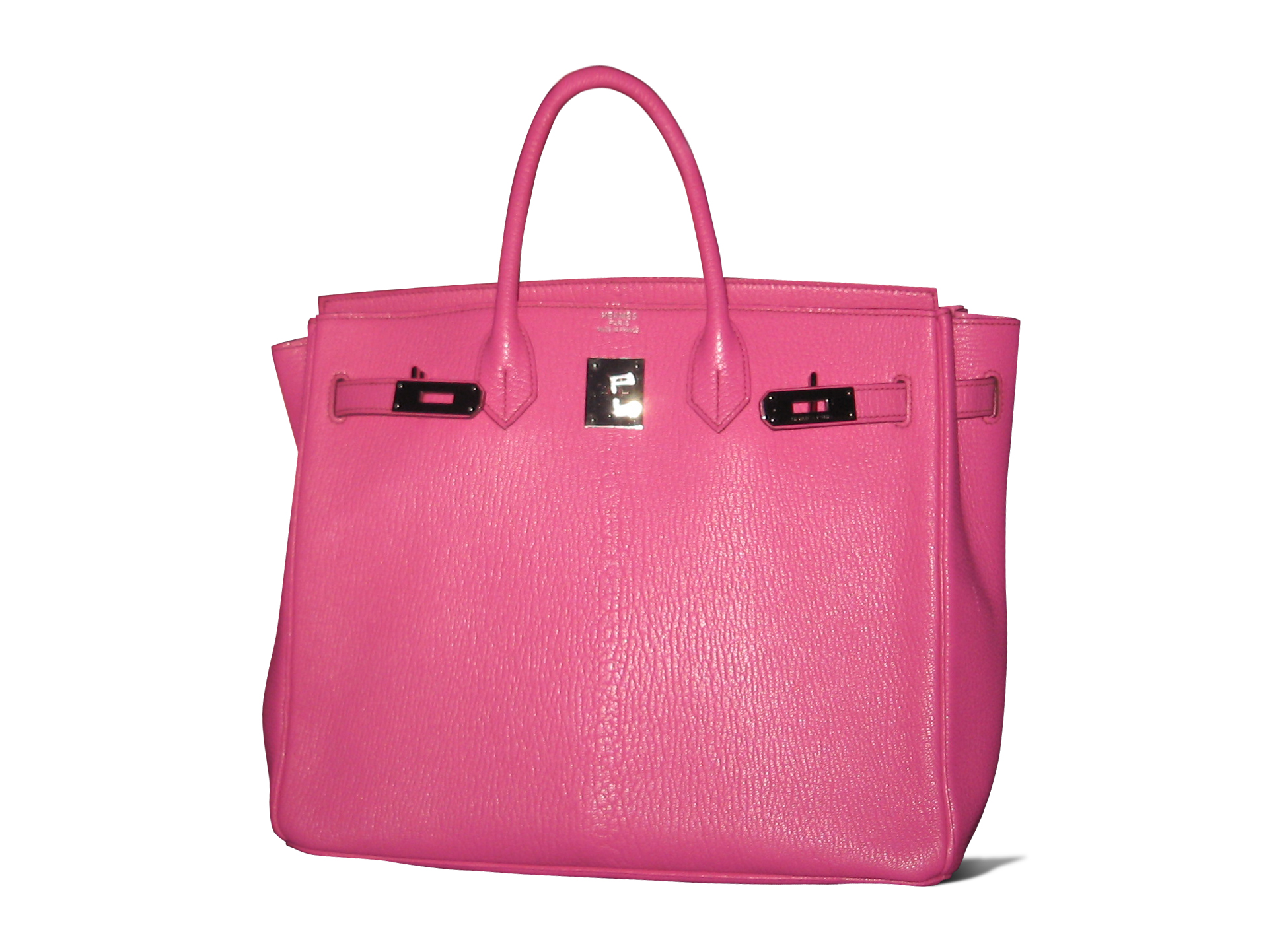 Hermes Birkin Purse.